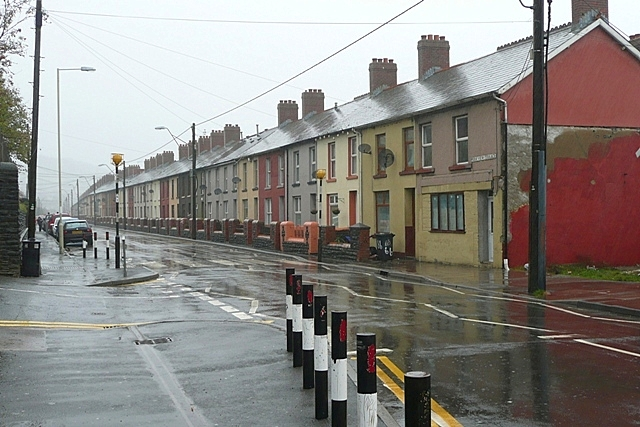 Park View Terrace from junction of John Street and Cromer Street, Abercwmboi, Rhondda Cynon Taff, Wales